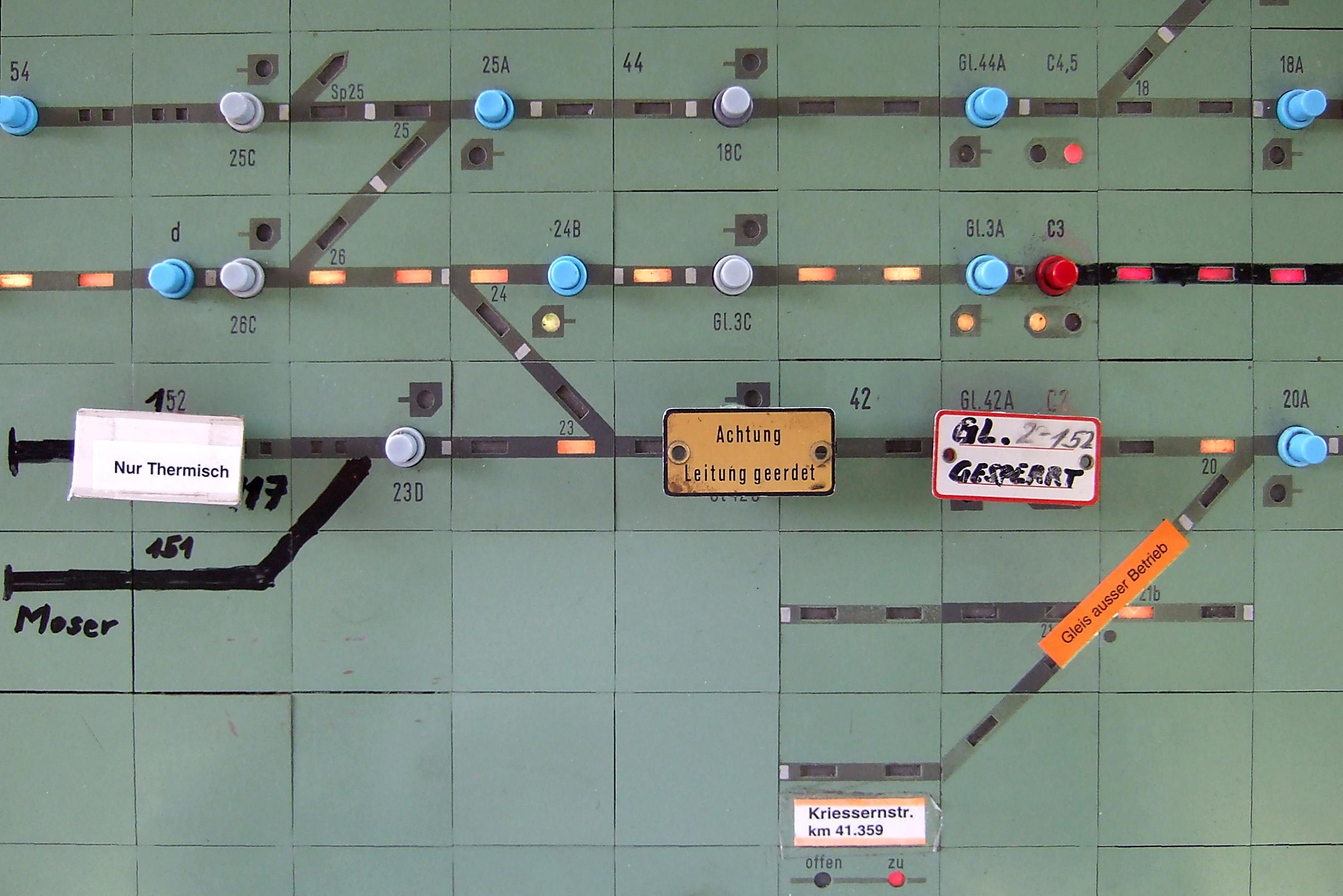 The station Altstätten of the Swiss Federal Railways is in alteration. This is a detail from the current switchboard Domino 55 with midget signals, which will not longer be manually operated after the alteration. Sep 9, 2007.